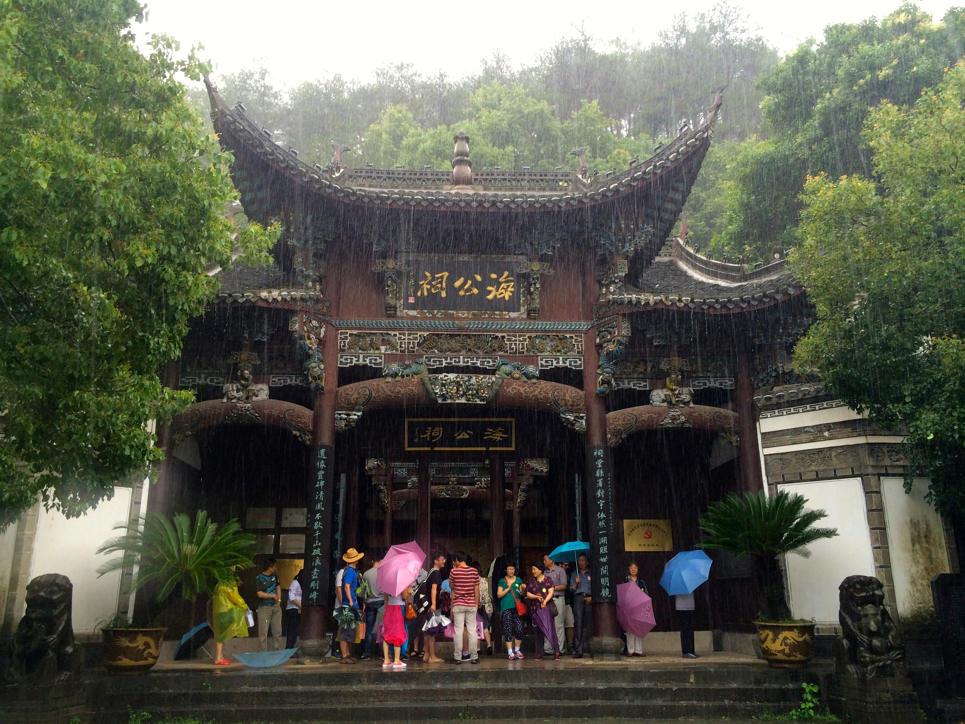 Hai Rui Temple at Qiandao Lake